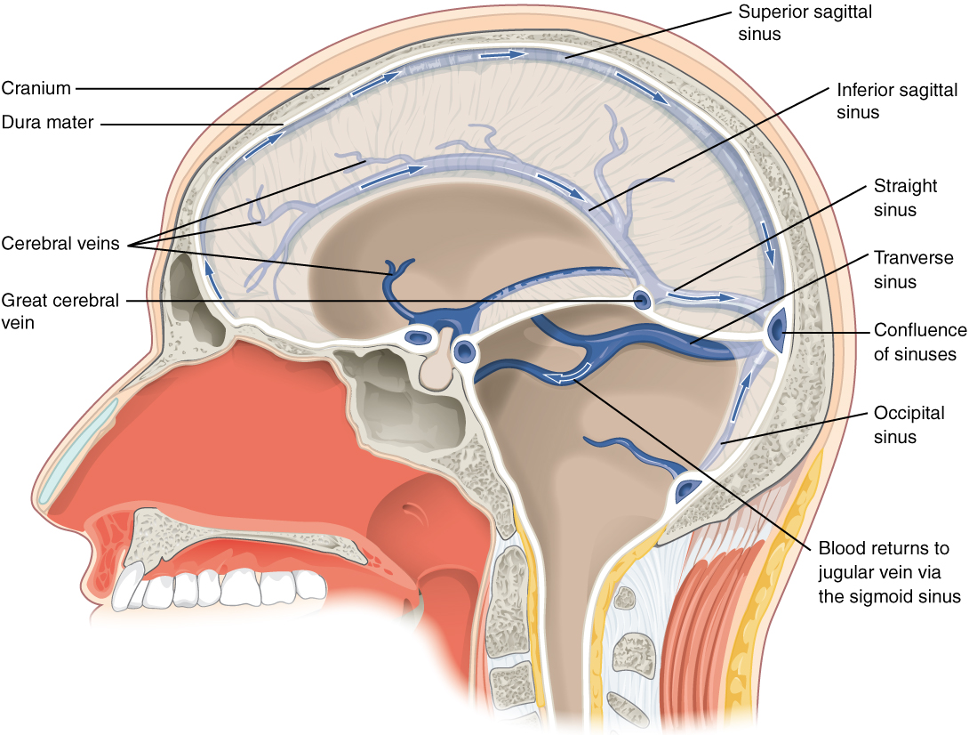 Version 8.25 from the Textbook OpenStax Anatomy and Physiology Published May 18, 2016